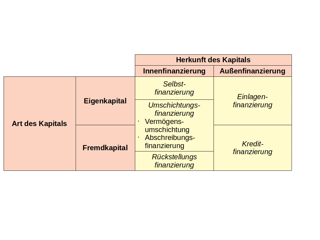 Financing sources for enterprises by type and origin of capital.